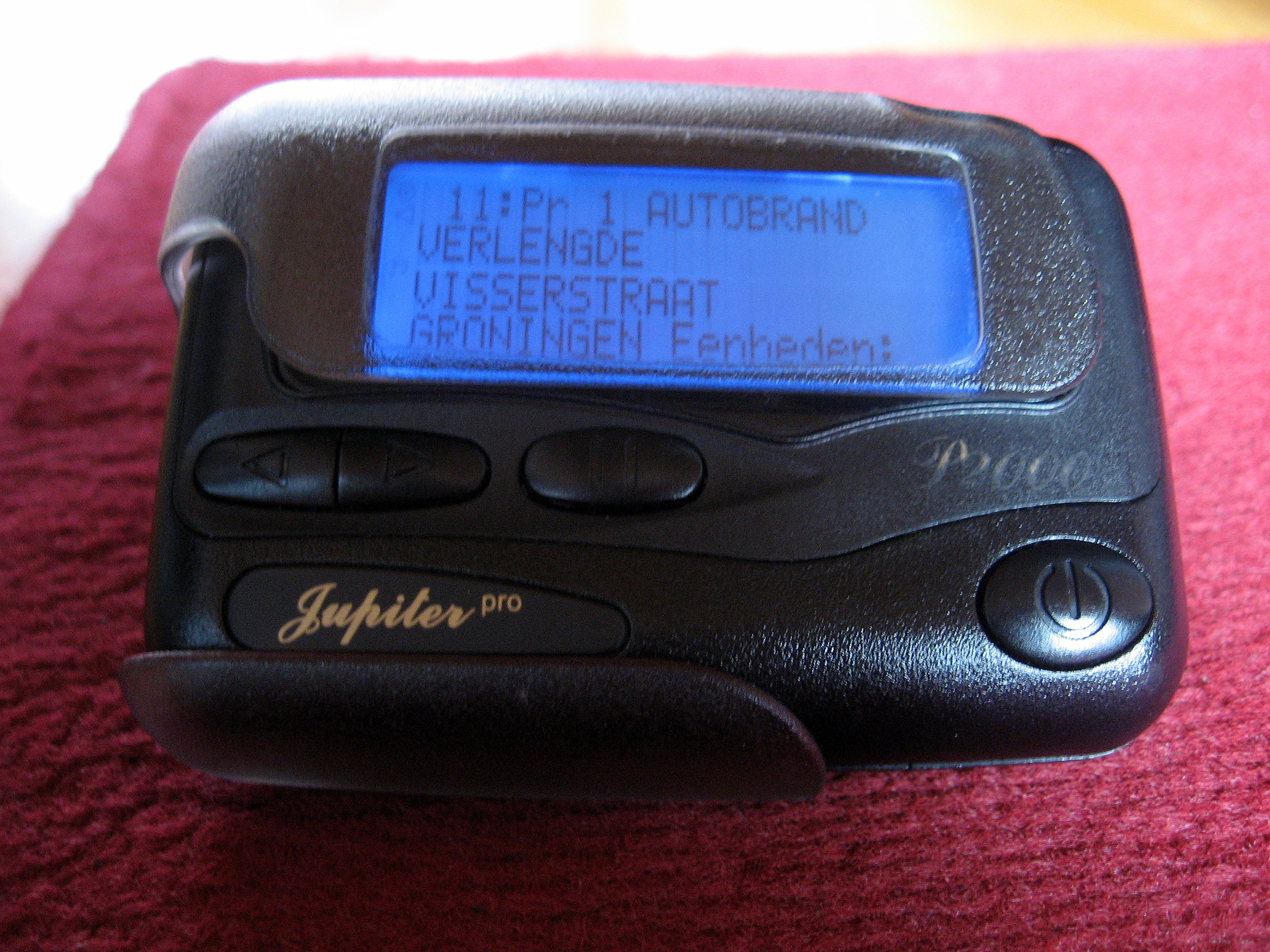 A pager to receive messages from the police, fire department and ambulance.